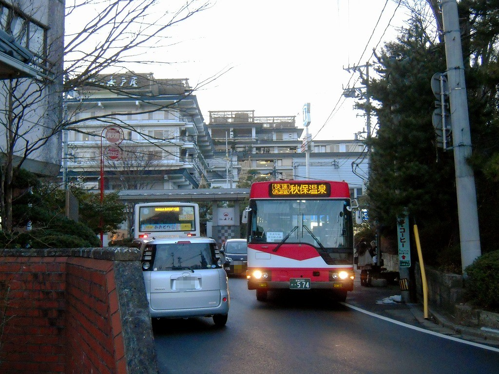 Miyagi kotsu bus on Akiu Onsen (Taihaku-ku,Sendai,Miyagi,Japan)